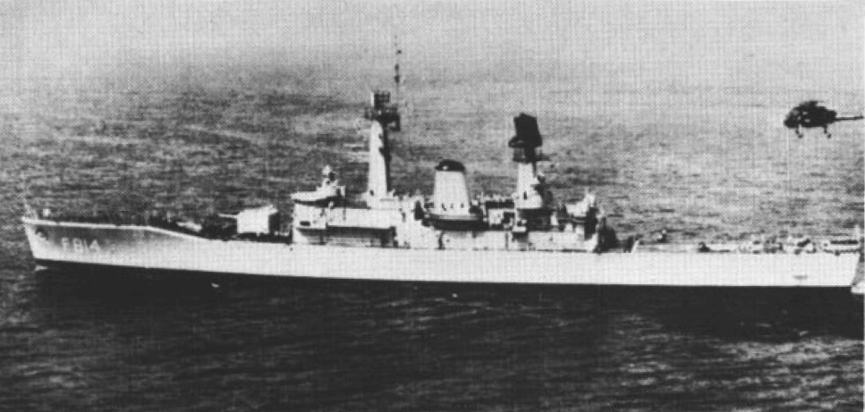 The Dutch frigate Hr.Ms. Isaac Sweers (F814). She was assigned to the NATO Standing Naval Force Atlantic. Note her Westland Wasp helicopter.